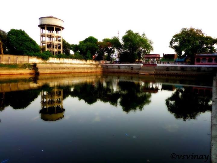 rajendra sarovar in chhapra city